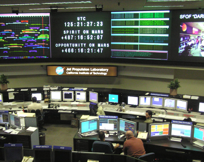 This is a photograph of the control room in the Jet Propulsion Laboratory in Pasadena, California, USA.